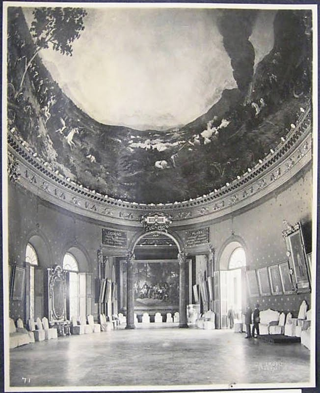 Elliptical room of the Federal Capitol, Caracas, Venezuela.